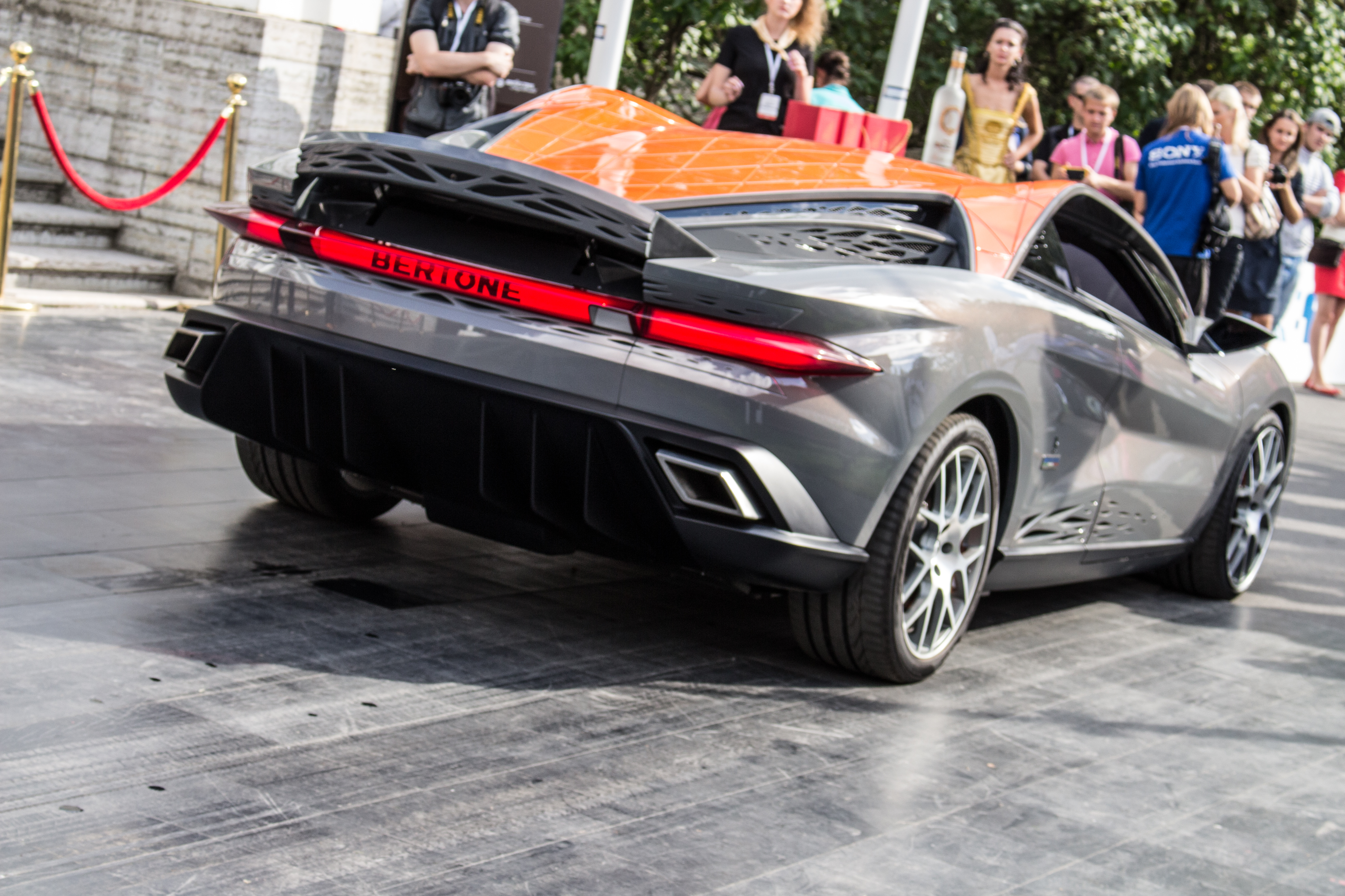 Bertone Nuccio in Italy in 2012.